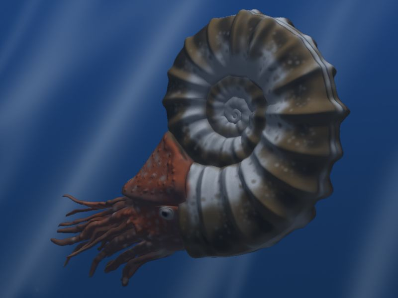 Asteroceras obtusum, Ammonite from the Early Jurassic. Digital.